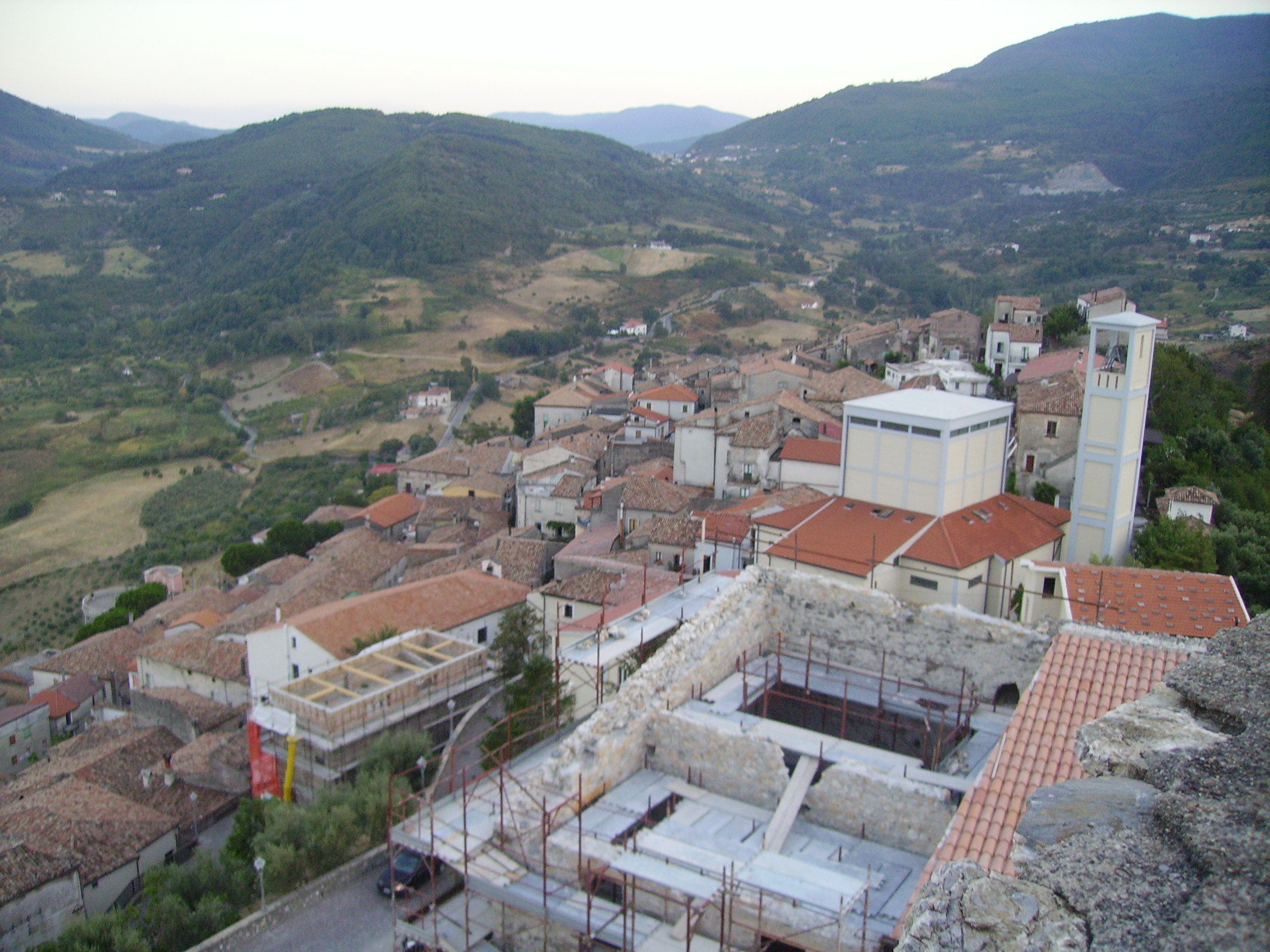 Malvito (CS) town center - 01